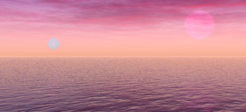 Solaris with its two suns.